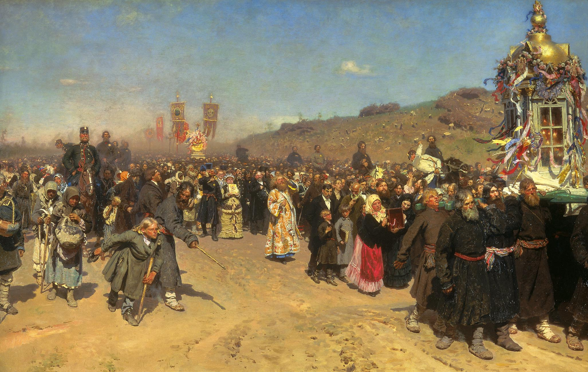 Easter Procession in the Region of Kursk